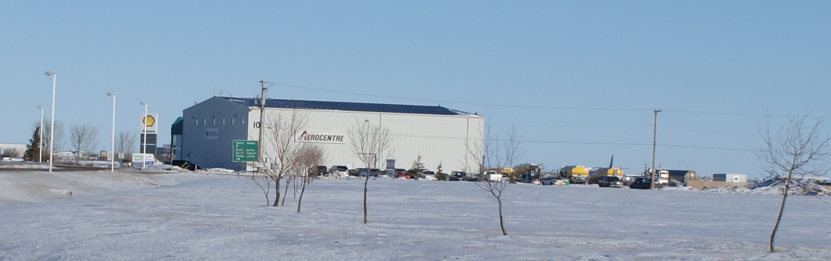 Westjet Aerocentre at the Saskatoon John G. Diefenbaker International Airport